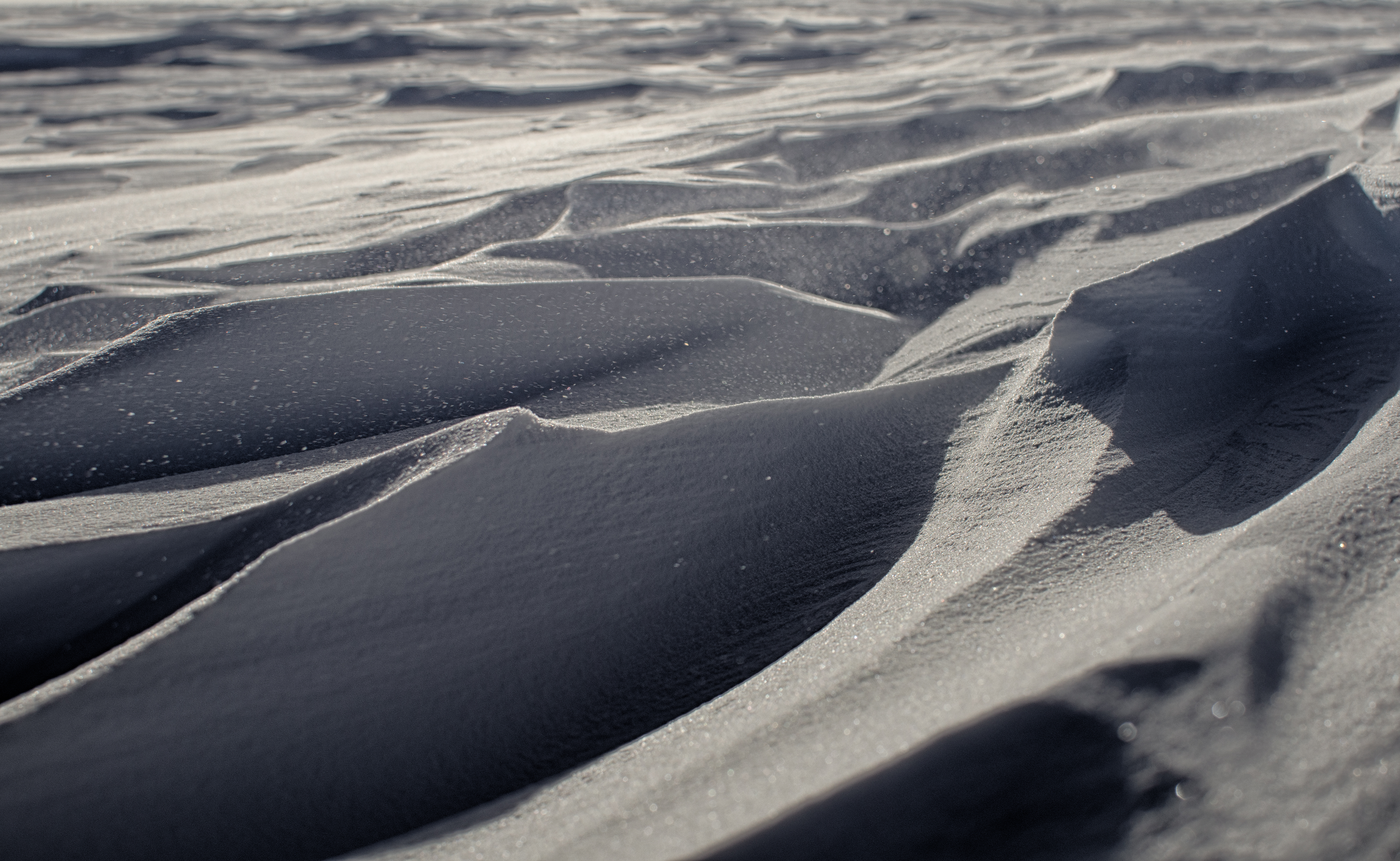 Sastrugi - wind sculpted snow near South Pole Station. Image ID: anta0183, NOAA At The Ends of the Earth Collection Photographer: Ross Burgener, ET, NOAA/OAR/ESRL/GMD